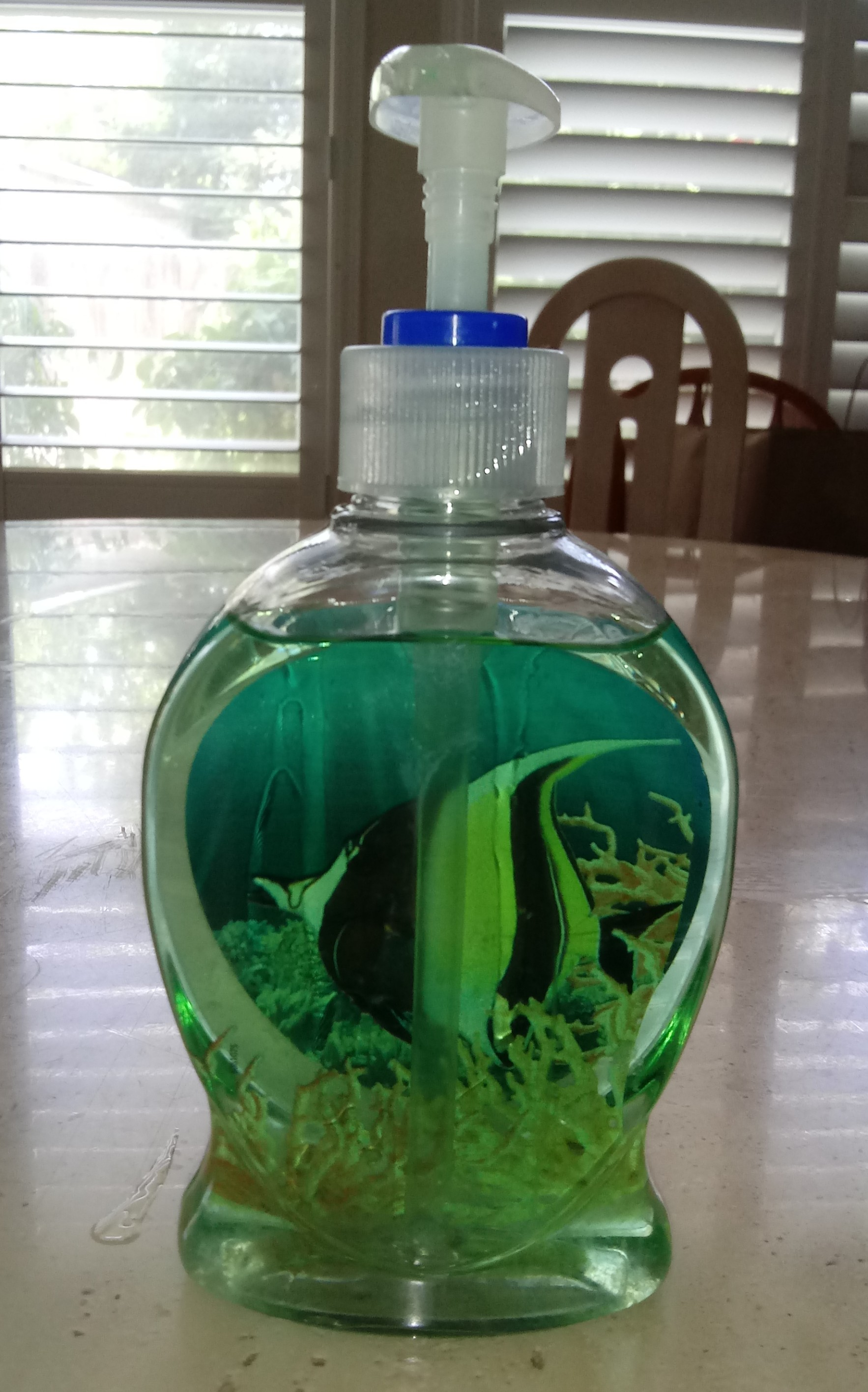 A homemade hand sanitizer, by mixing 16oz of isopropyl alcohol (70-99%), 1/4 cup of aloe vera juice, and drops of lemon juice, in a used hand soap dispensers.